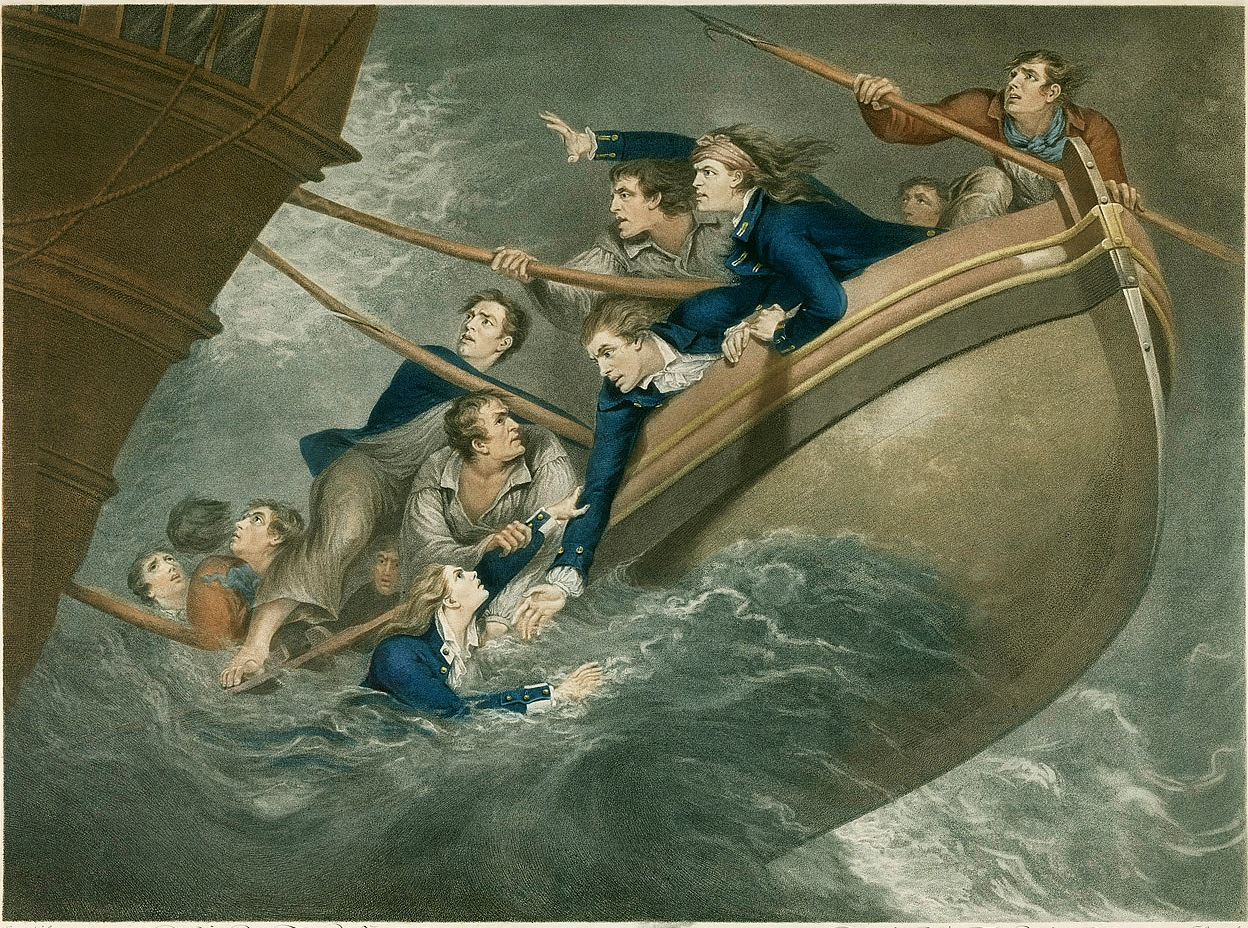 Engraving by Thomas Gaugain after James Northcote of Capt. Inglefield and 11 men saved at sea